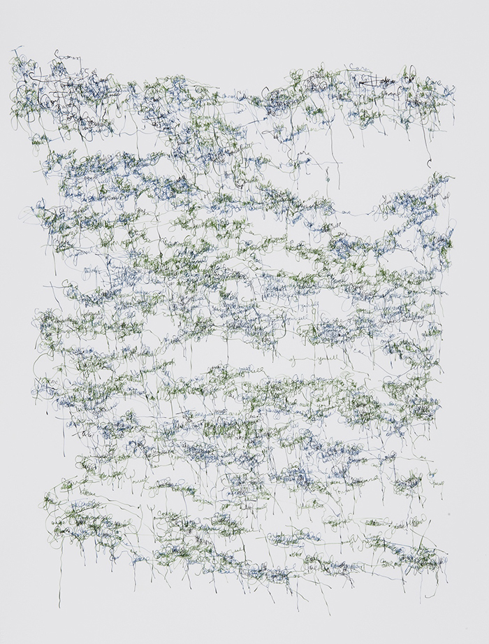 Series Take Care of Yourself, inspired by the late lectures of Michel Foucault at the College de France, are writing-drawing abstractions formed by repetitions of the phrase “Take Care of Yourself”, referencing the Socratic notion of care as it was addressed in Foucault’s studies. The drawings “mediate between disequilibrium and a quietness. As linguistic gestures, they assure a kind of transgression that disrupts and offers up a contemplative space. #5 Galerie Nachst St. Stephan, Vienna Austria 2016